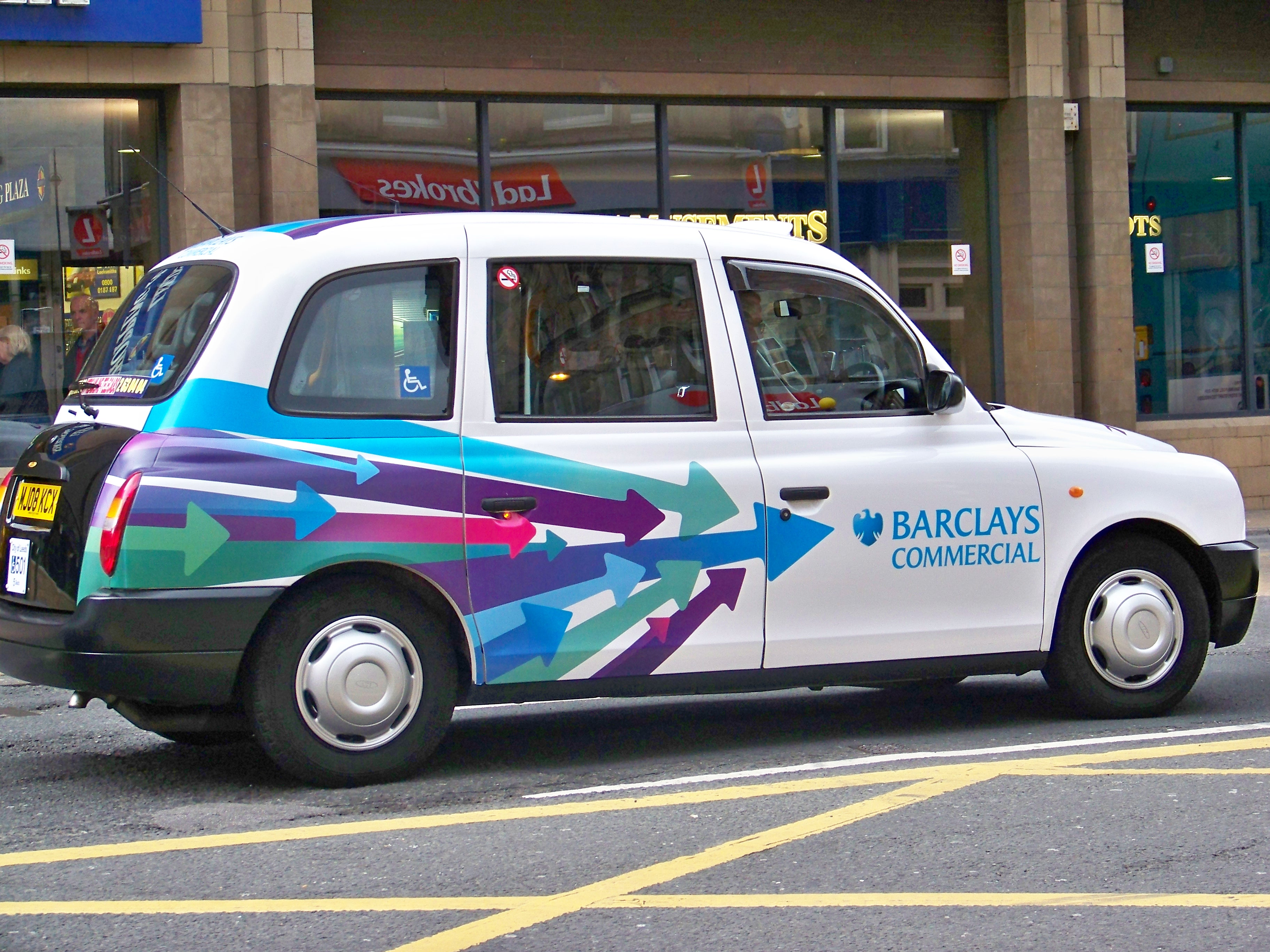 A Leeds Taxi with advertisements for Barclays bank as seen on Boar Lane in Leeds, West Yorkshire, UK.